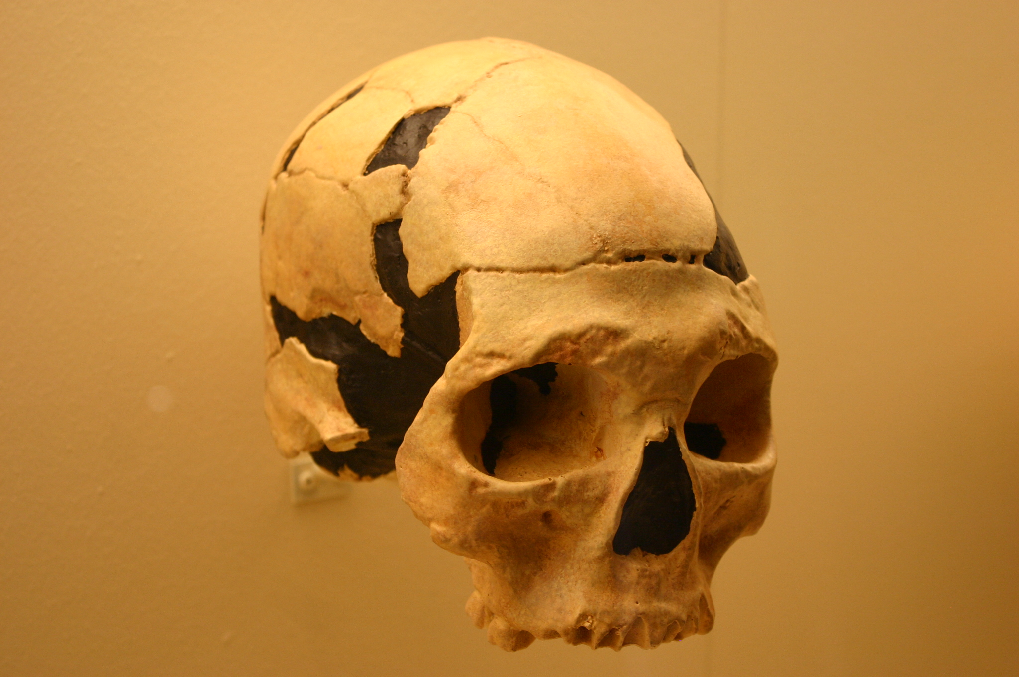 Oase 2 Age: About 41,500–39,500 years old Site: Peştera cu Oase, Romania Year of Discovery: 2003 Discovered by: Ştefan Milota, Ricardo Rodrigo, Oana Moldovan and João Zilhão Age: About 41,500–39,500 years old Species: Homo sapiens This skull looks modern but retains a few archaic traits, such as wide cheek bones. Some scientists wonder if this means that on rare occasions Homo sapiens interbred with Neanderthals, who lived in Europe at the same time. Reference: Oase 2. Human Origins. Washington, DC: Smithsonian National Museum of Natural History. 30 March 2016.